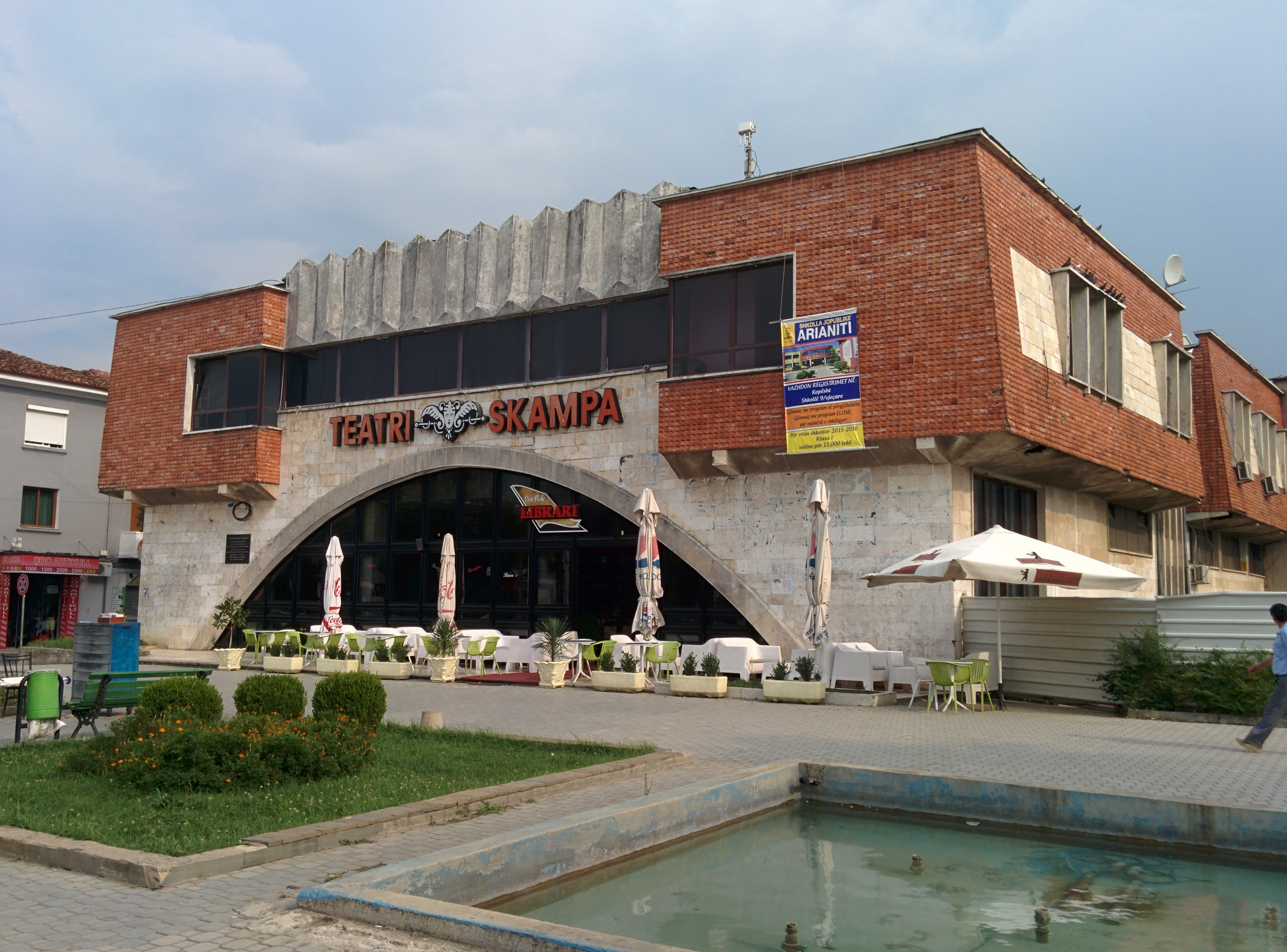 Skampa Theater is located in the main boulevard of Elbasan.